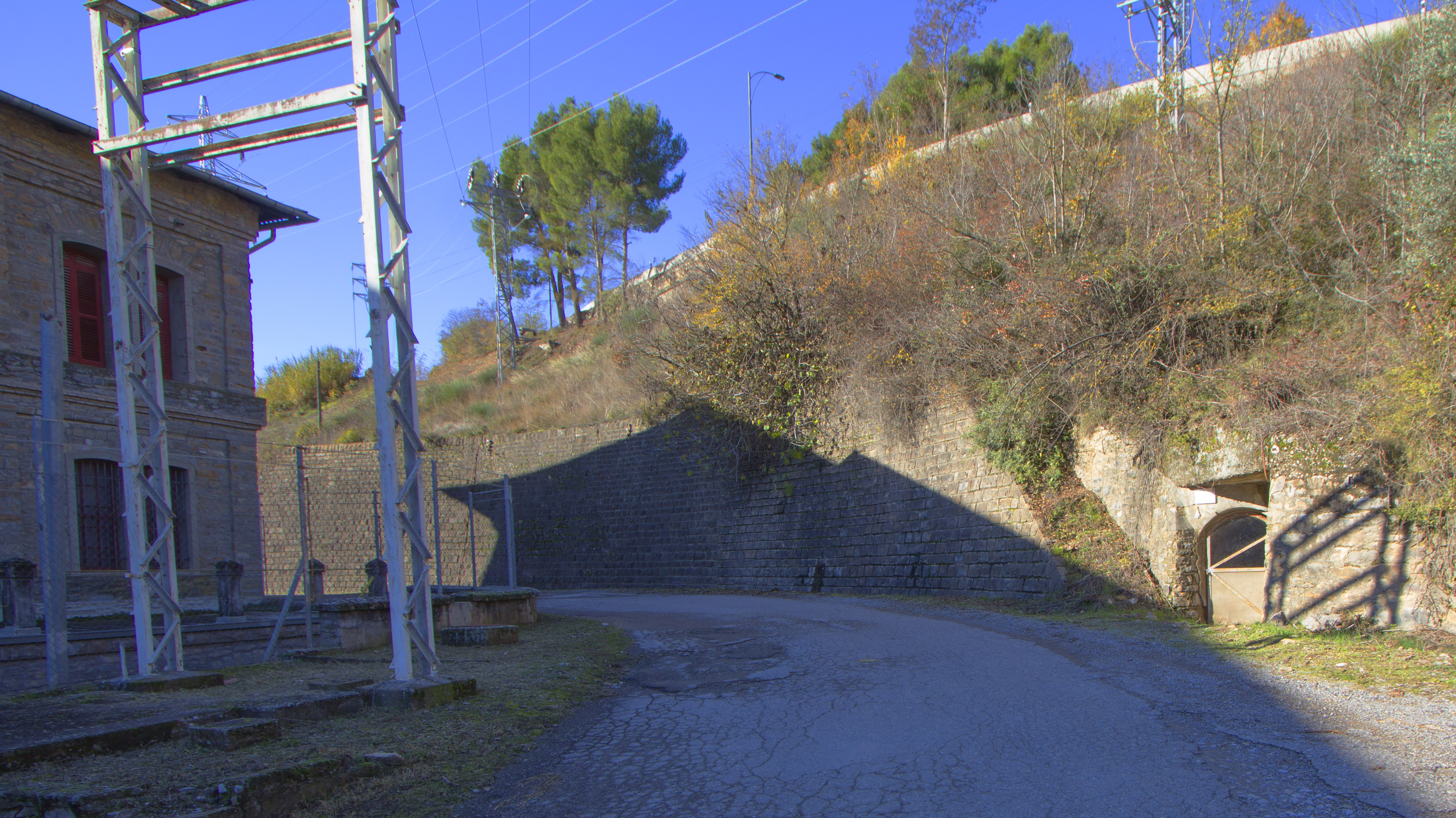 At right, entrance to Air raid shelter at Pobla de Segur hydropwer plant (Catalonia)